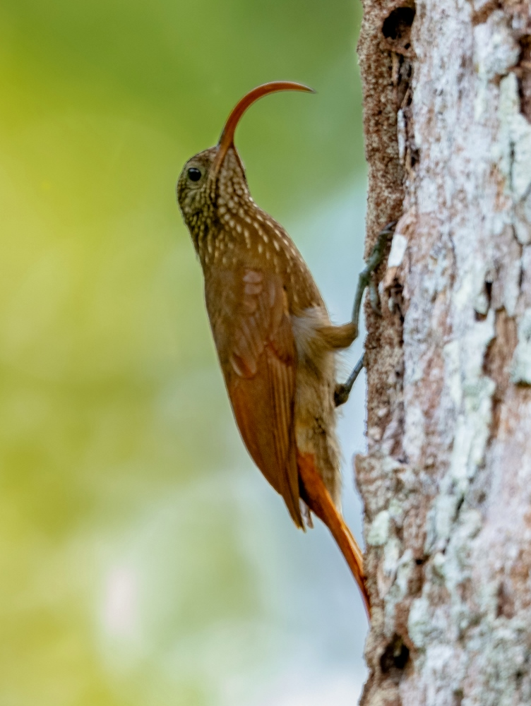 Curve-billed Scythebill; Botanic Garden Tower, Manaus, Amazonas, Brazil